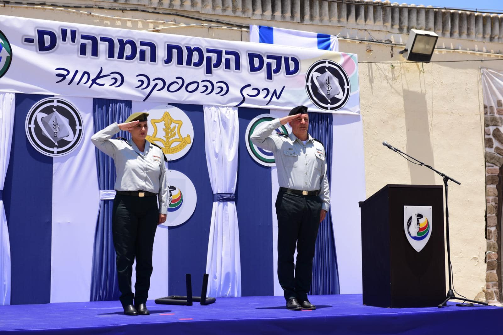 Establishment ceremony of the Marhas unit.